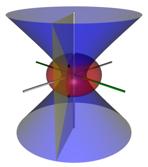 Version of Image:Oblate_spheroidal_coordinates.png that highlights the two-fold degeneracy in the z-axis.